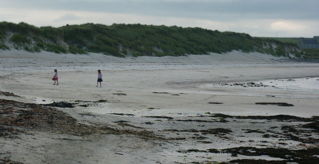 Bu Sands, South Links, Burray Looking NW across this beautiful beach. Dune complex behind, which is being actively quarried for sand. The house on the right is The Bu.